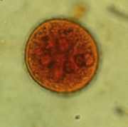 Entamoeba coli cyst with 6 nuclei, Iodine stain, Wet Prep